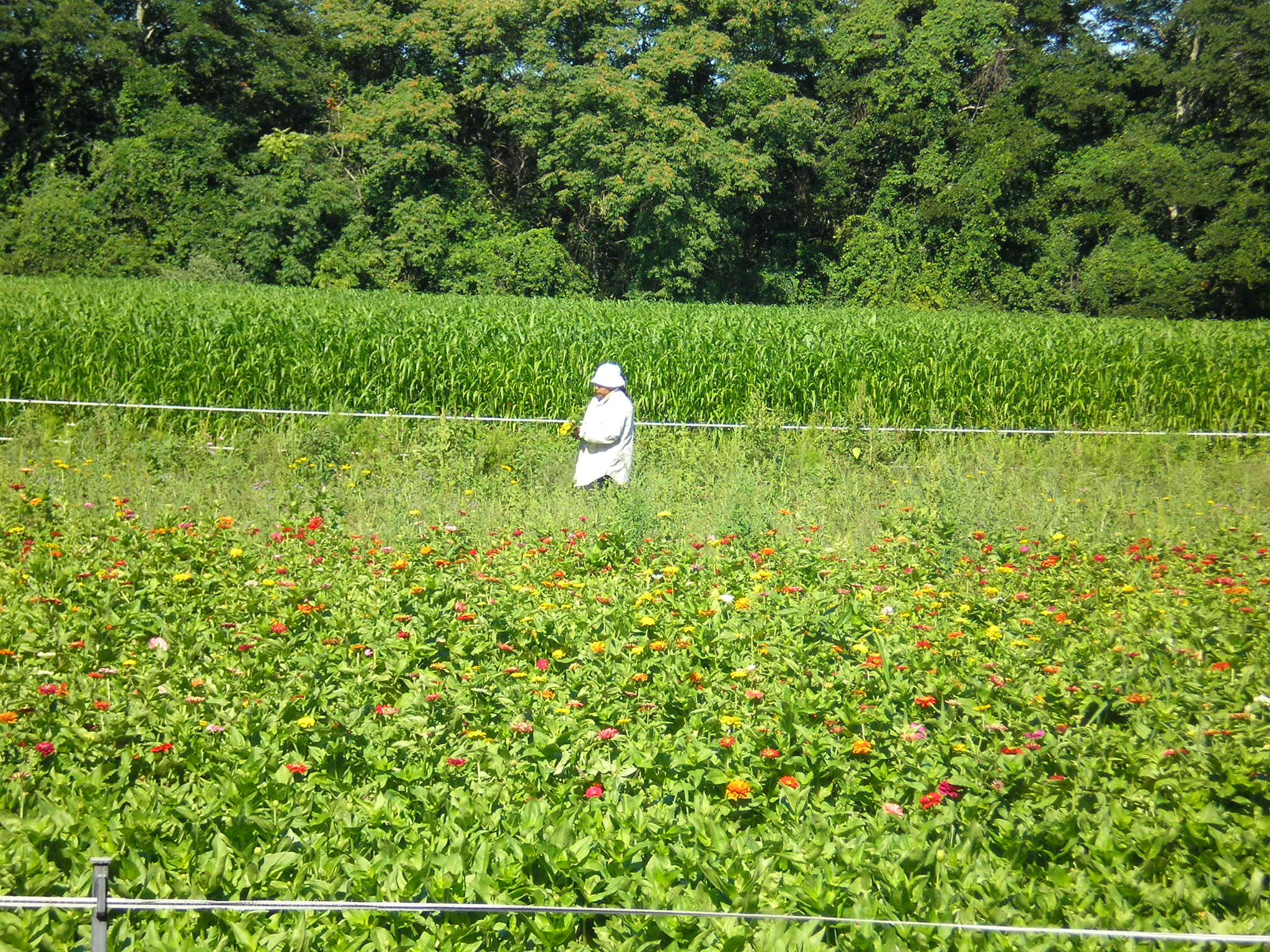 Migrant Worker by David Shankbone, New York City